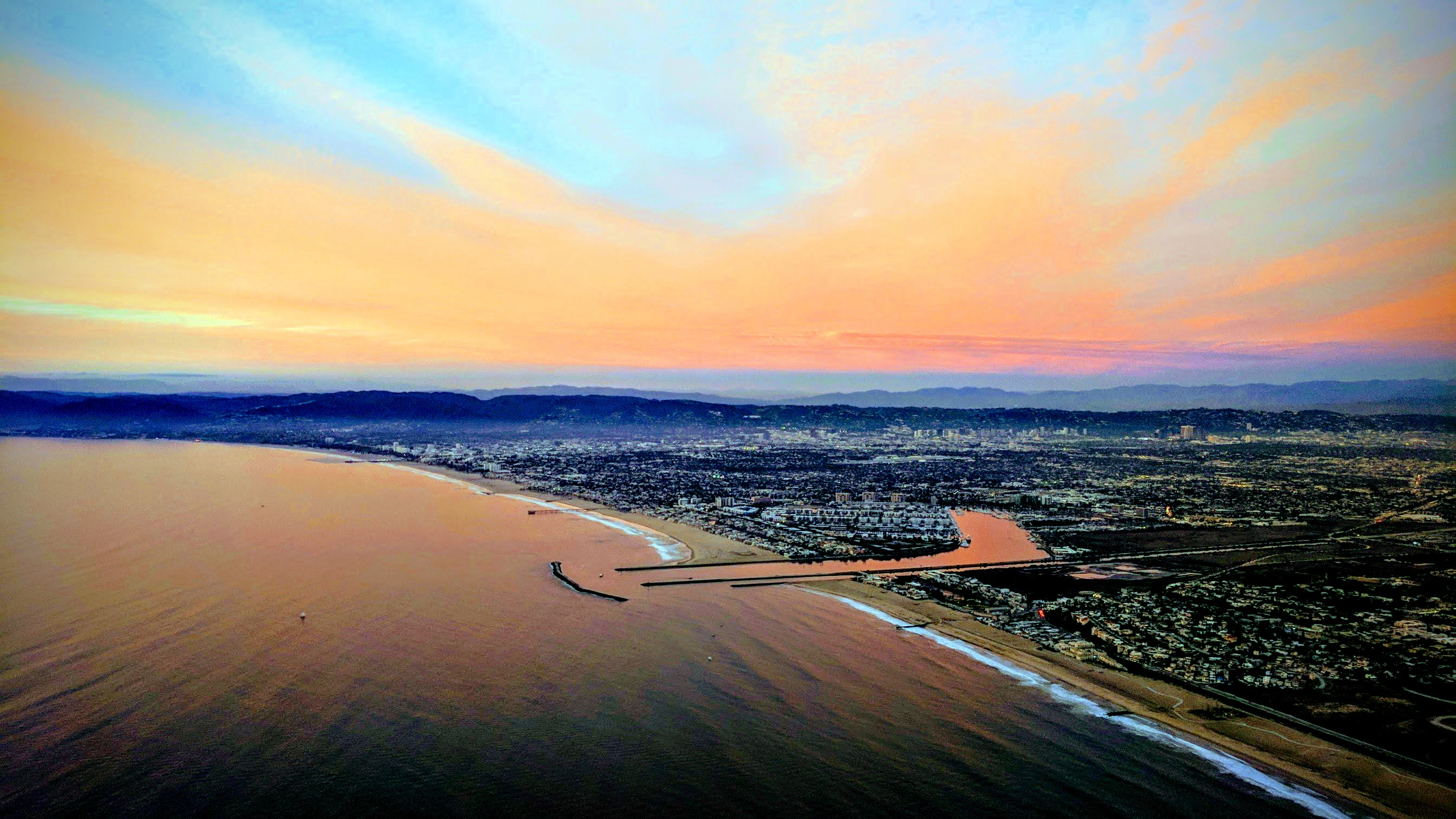 Aerial view of Marina Del Rey from the south, on takeoff from LAX near sunset